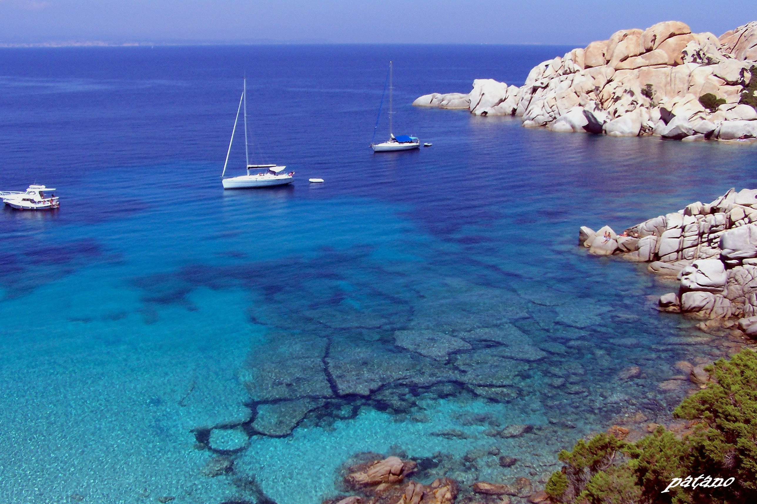 Sea of Capo Testa - Santa Teresa di Gallura - Province of Gallura - Sardinia